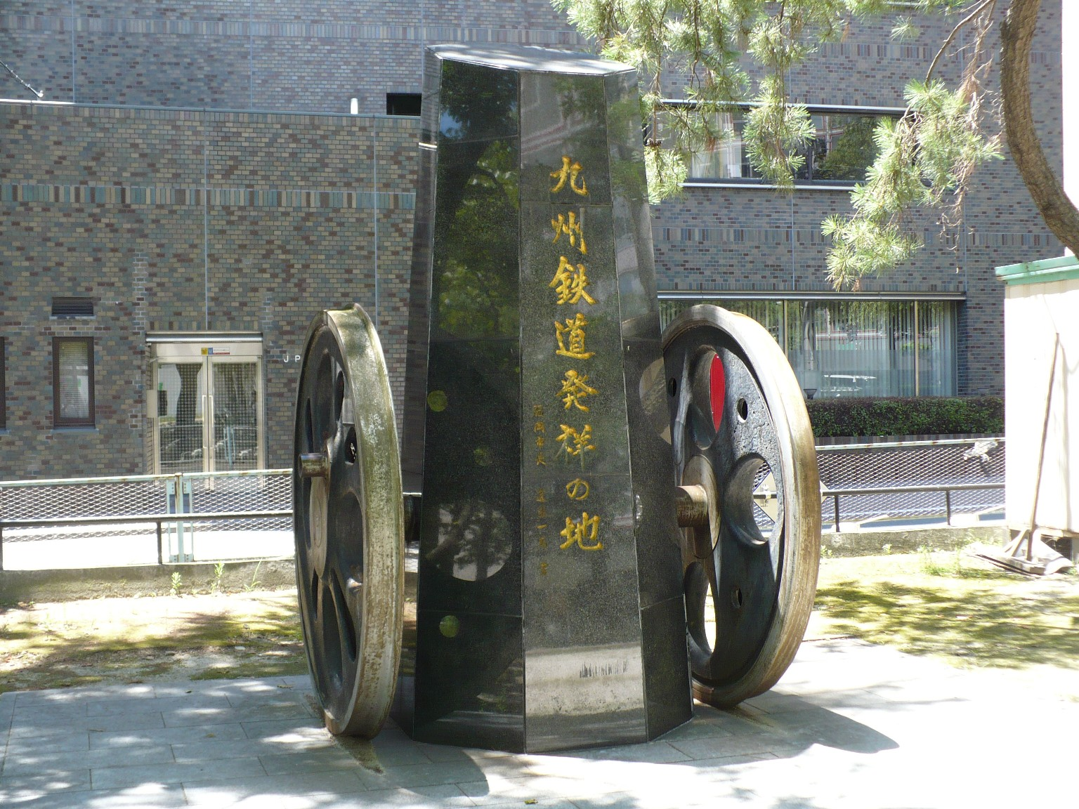 Kyushu railway memorial at Dekimachi park, Hakata ward, Fukuoka city, Fukuoka prefecture, Japan. This is the original site of first Hakata station. The used wheels are the third driving wheels of JNR C61-18 steam locomotive. The memorial was built on the 90th anniversary of railways in Kyushu.